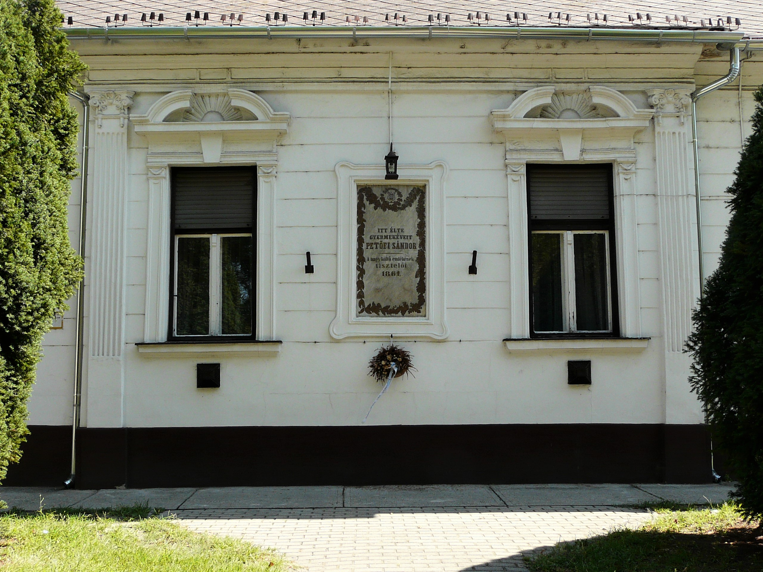 Petőfi Memorial House in Kiskunfélegyháza